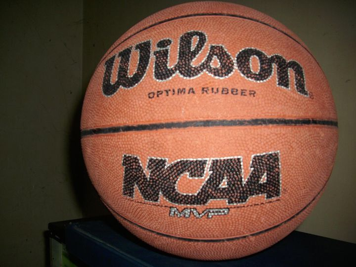 NCAA special-purpose ball.